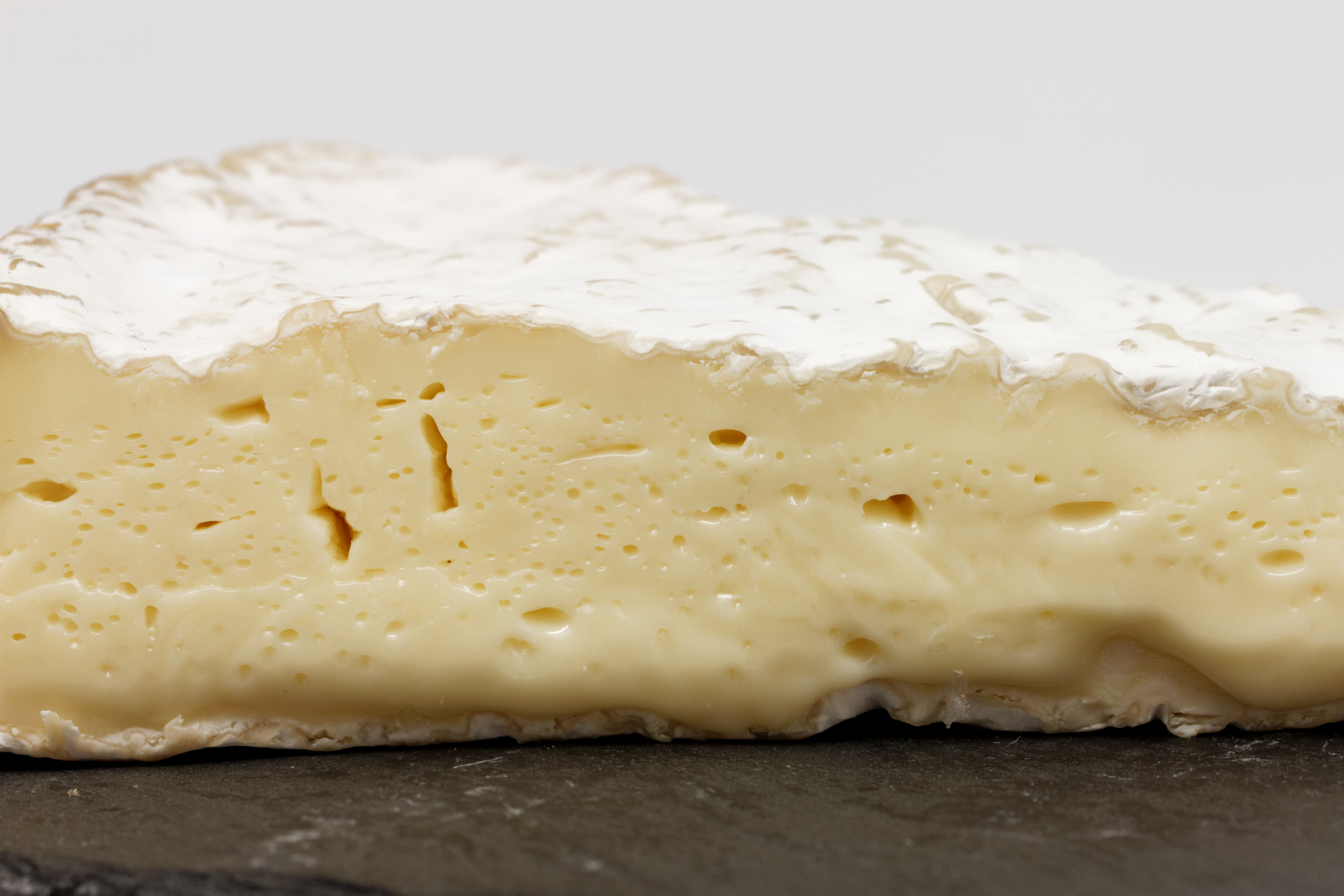 Brie de Meaux (cow's milk cheese)